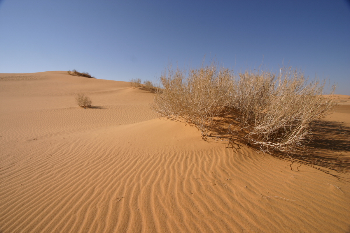 The desert on the way between Sakaka and Tayma.